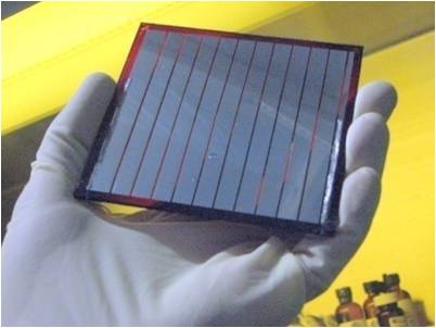 Photo of 4inch by 4 inch cell.